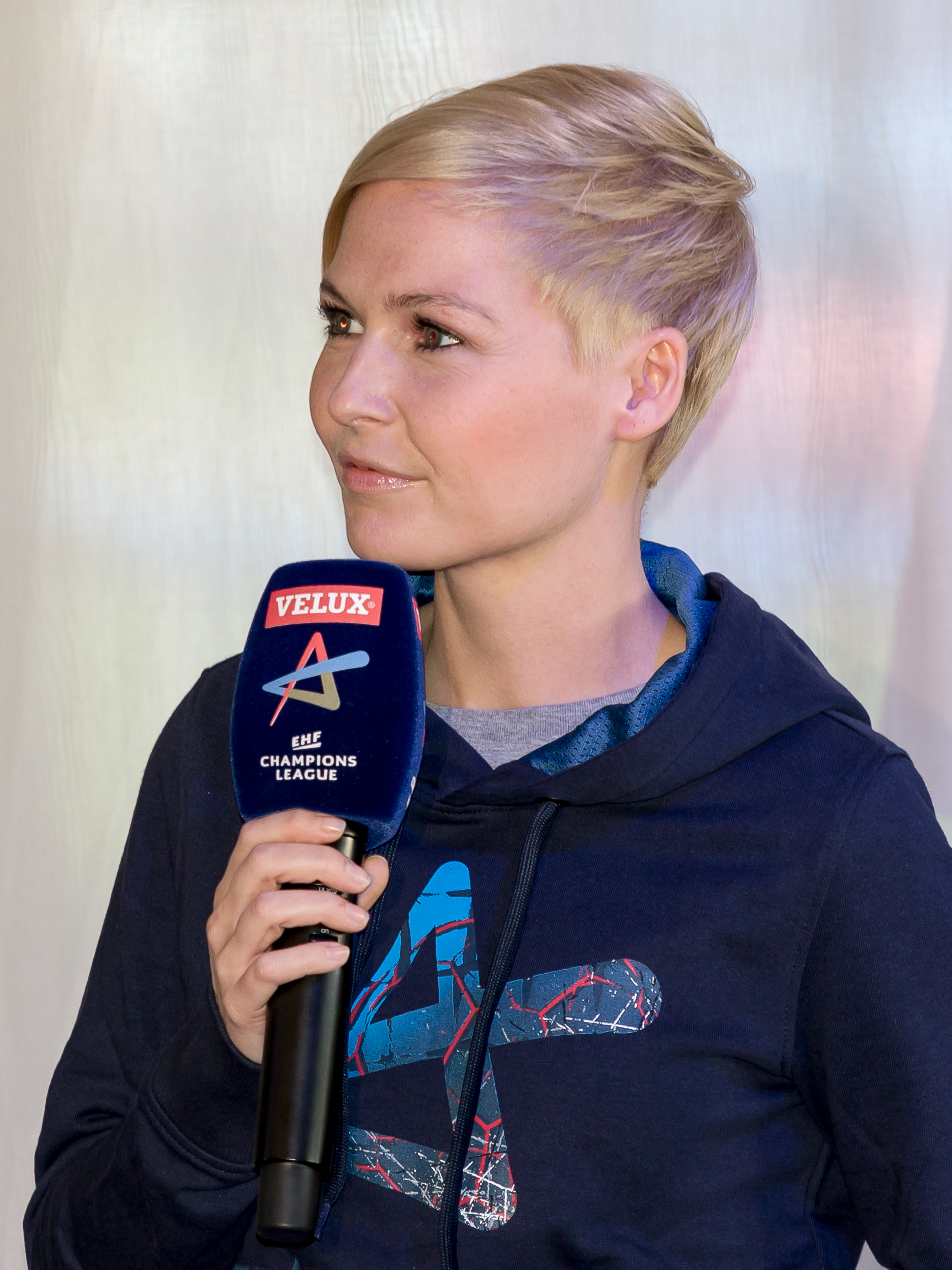 Draw Event Velux EFH Final Four 2016 Image: Moderator of the video conference: Anett Sattler